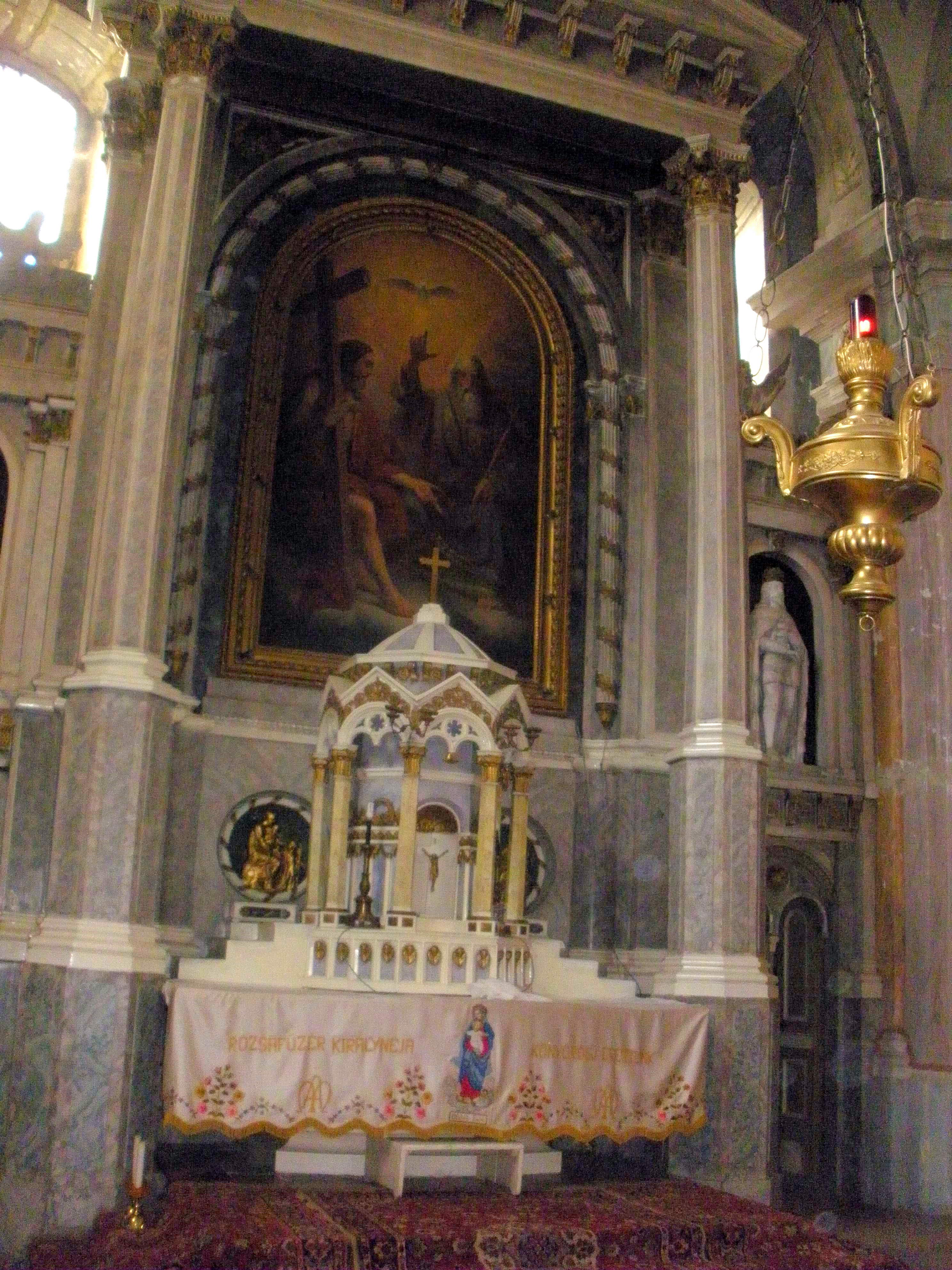 Main altar in church of Holy Trinity in Čoka in Banat.